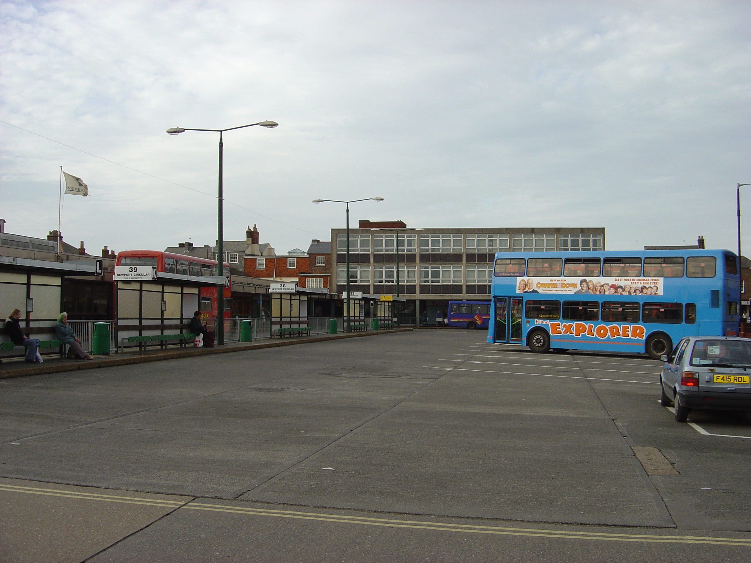 Newport bus station, Isle of Wight, before redevelopment work started in 2005.